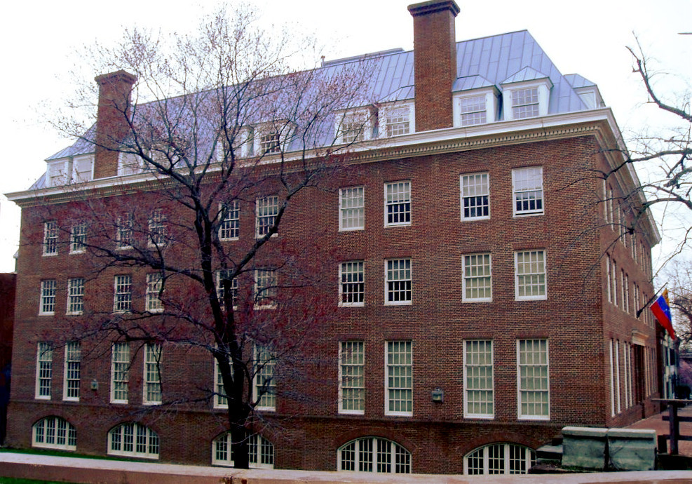 Embassy of Venezuela to the United States. Located in the Georgetown neighborhood of Washington, D.C.